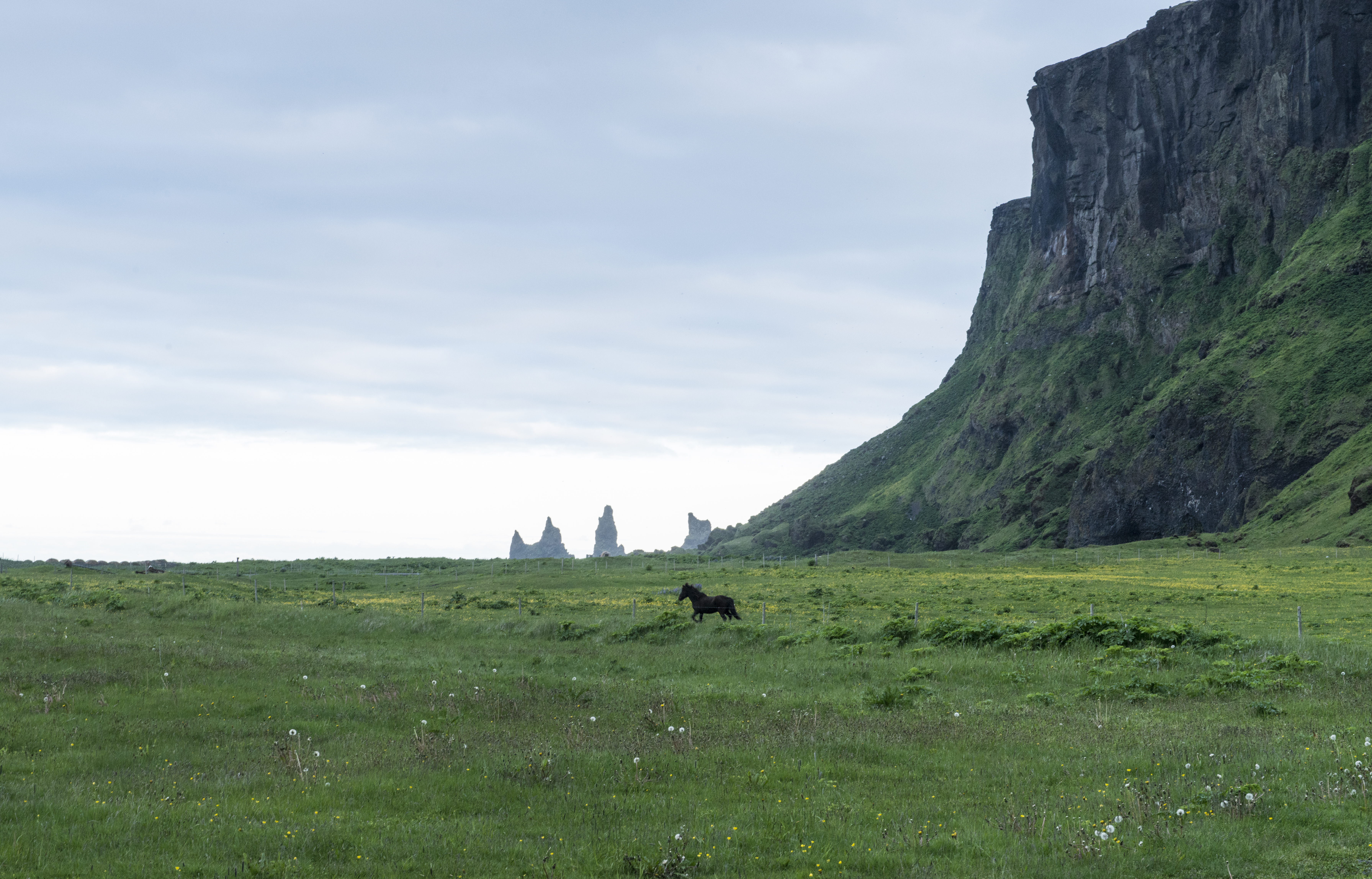 The cliffs by the township of Vik in Iceland